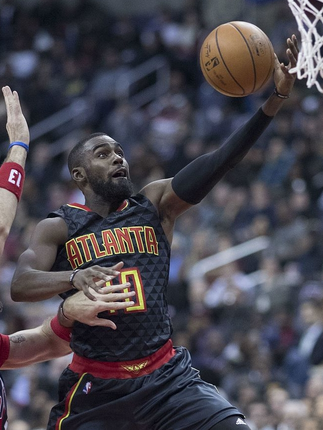 Hawks at Wizards 3/22/17